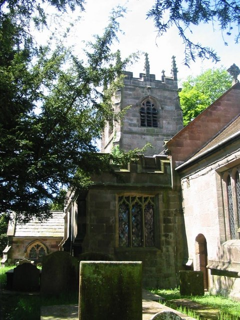 Part of St Michael's parish church, Horton, Staffordshire, looking west to the west tower